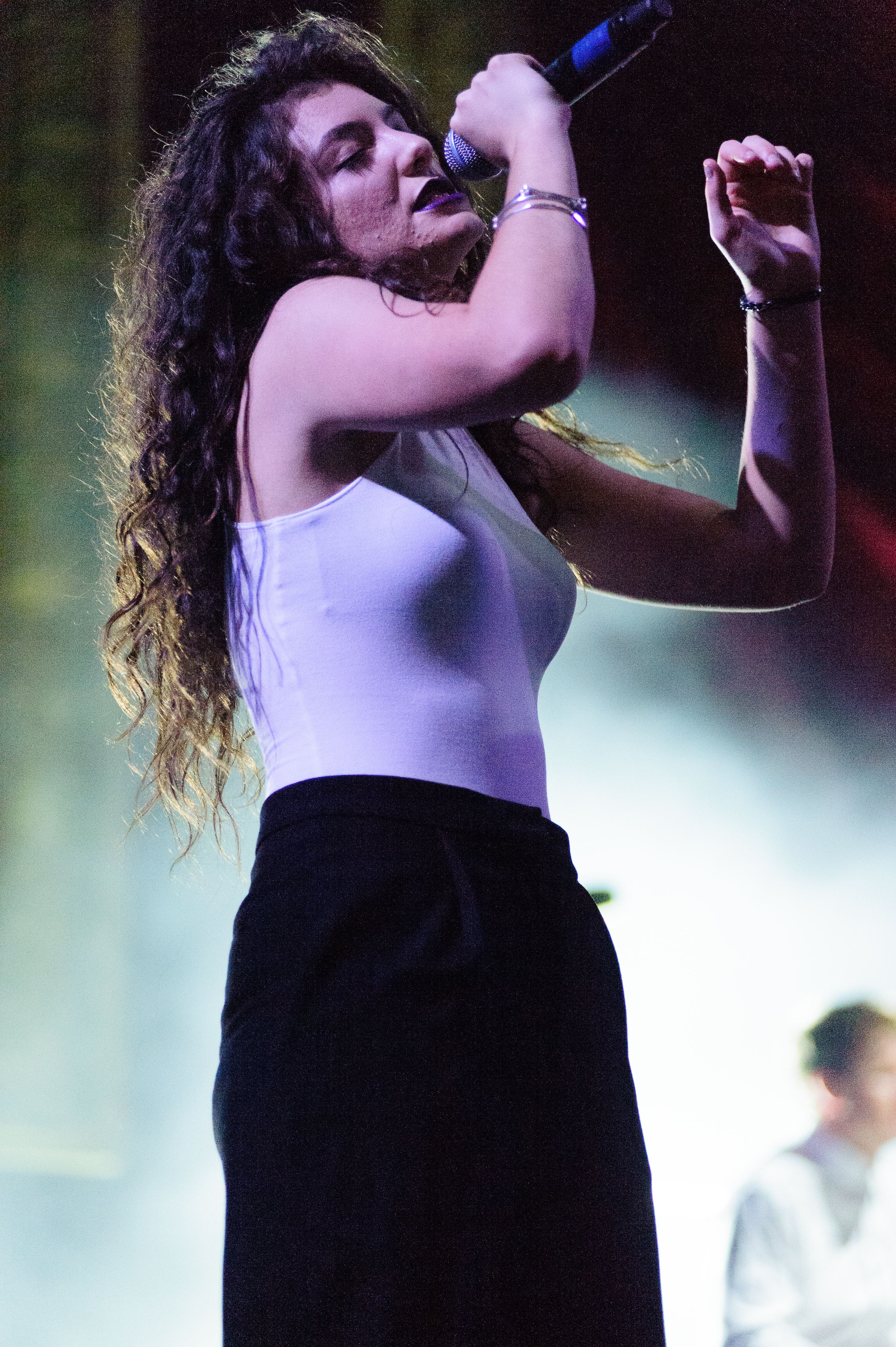 Lorde performing at Coachella on April 19, 2014.